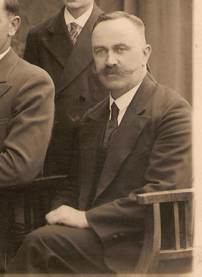 Johann Wartner, member of the German parliament after World War II